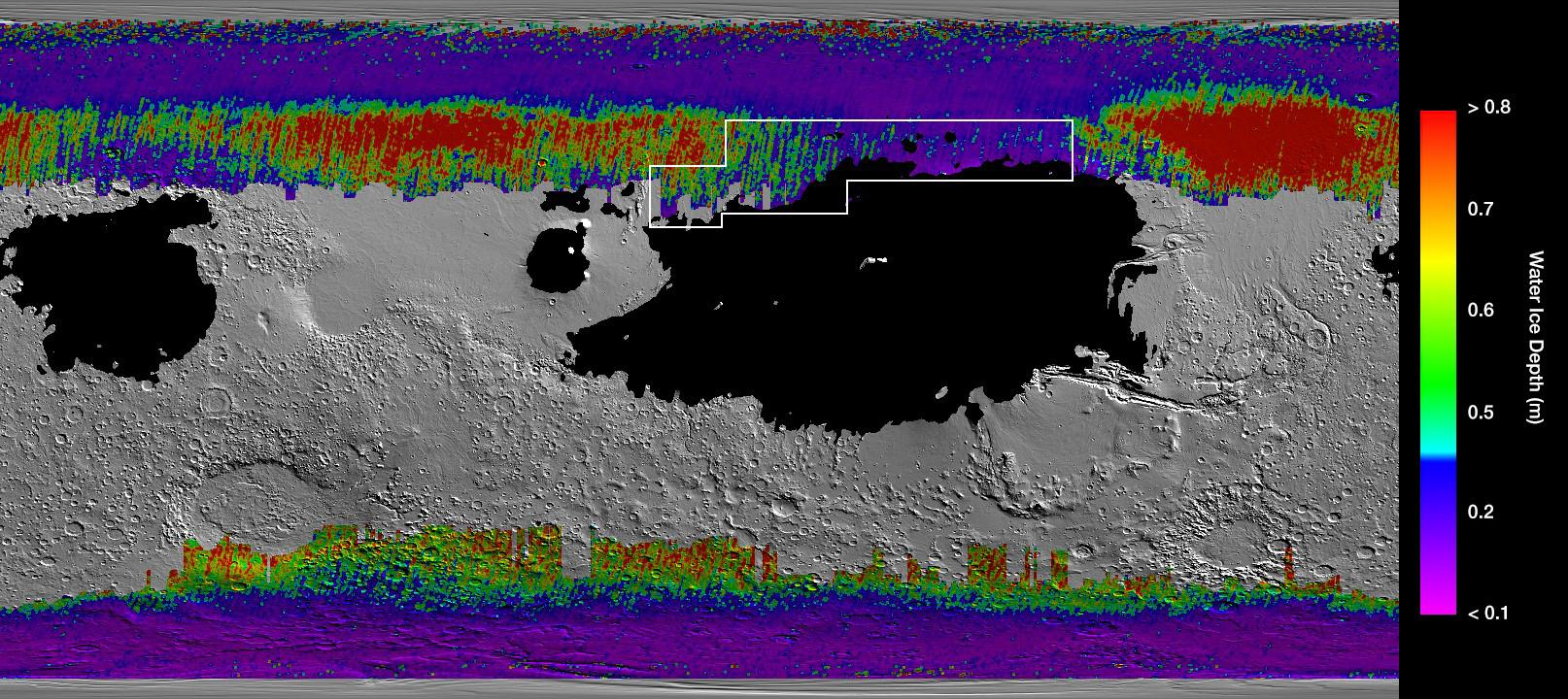 A Water Ice Map for Mars This rainbow-colored map shows underground water ice on Mars. This rainbow-colored map shows underground water ice on Mars. Cool colors represent less than one foot (30 centimeters) below the surface; warm colors are over two feet (60 centimeters) deep. Sprawling black zones on the map represent areas where a landing spacecraft would sink into fine dust. The outlined box represents the ideal region to send astronauts for them to be able to dig up water ice. The map was created by combining data from multiple NASA orbiters, including the Mars Reconnaissance Orbiter and its Mars Climate Sounder instrument; Mars Odyssey and its Thermal Emission Imaging System; and the Mars Global Surveyor.